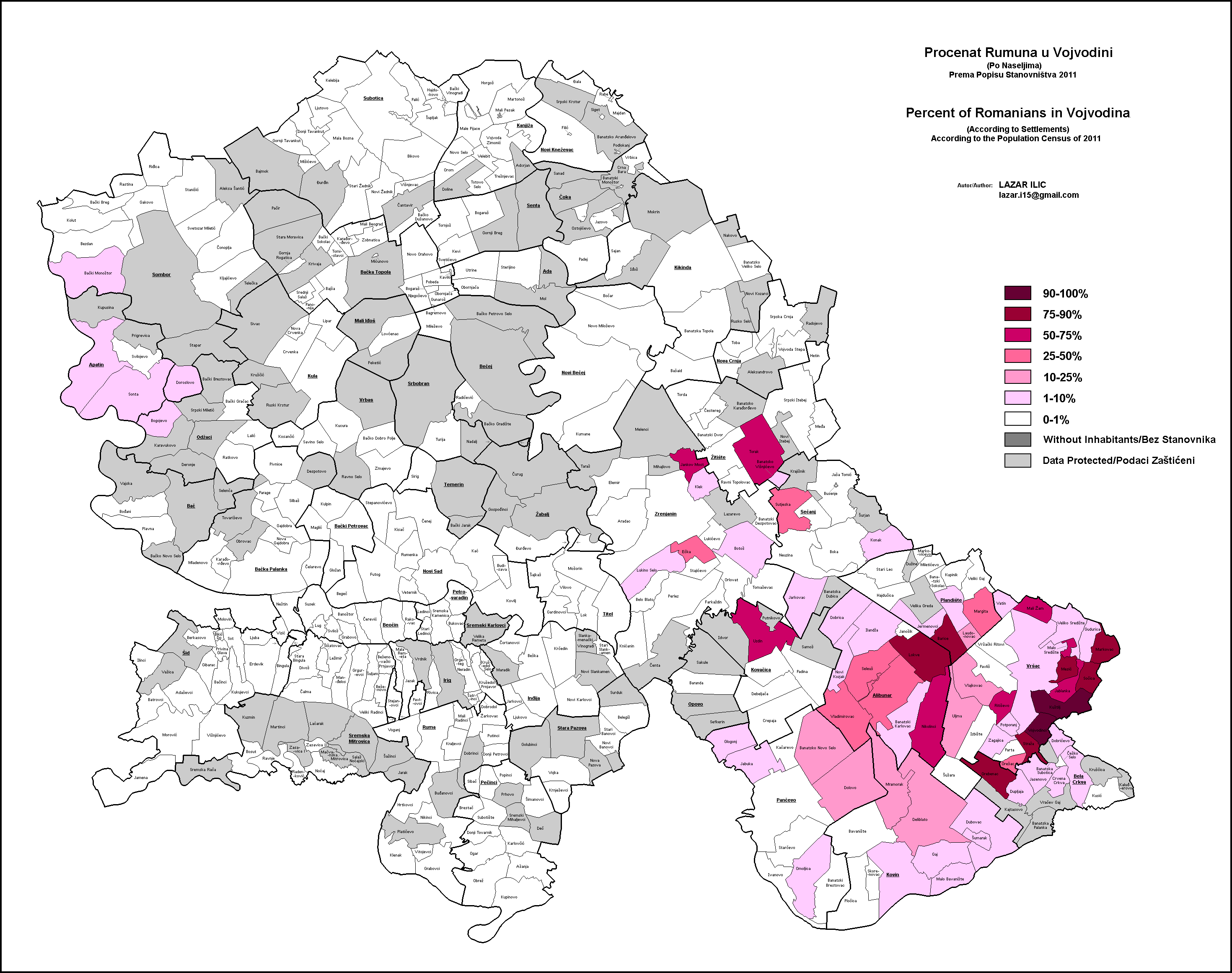 This is an ethnic map of Vojvodina (Northern Serbia) which shows the percent of Romanians according to each settlement, according to the 2011 population census.